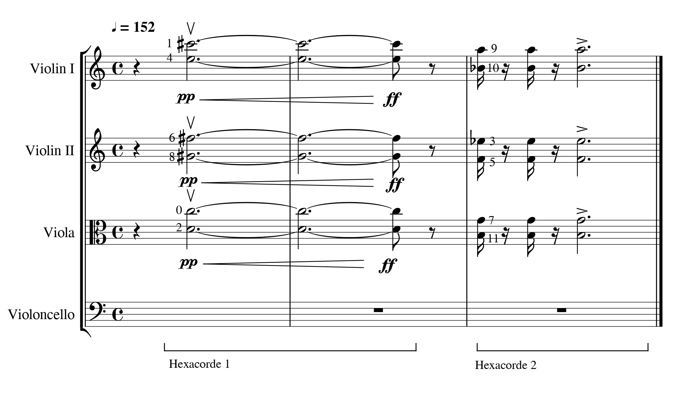 2 Hexacordes presentados en los compases iniciales del Cuarteto n. 1 de Gerhard